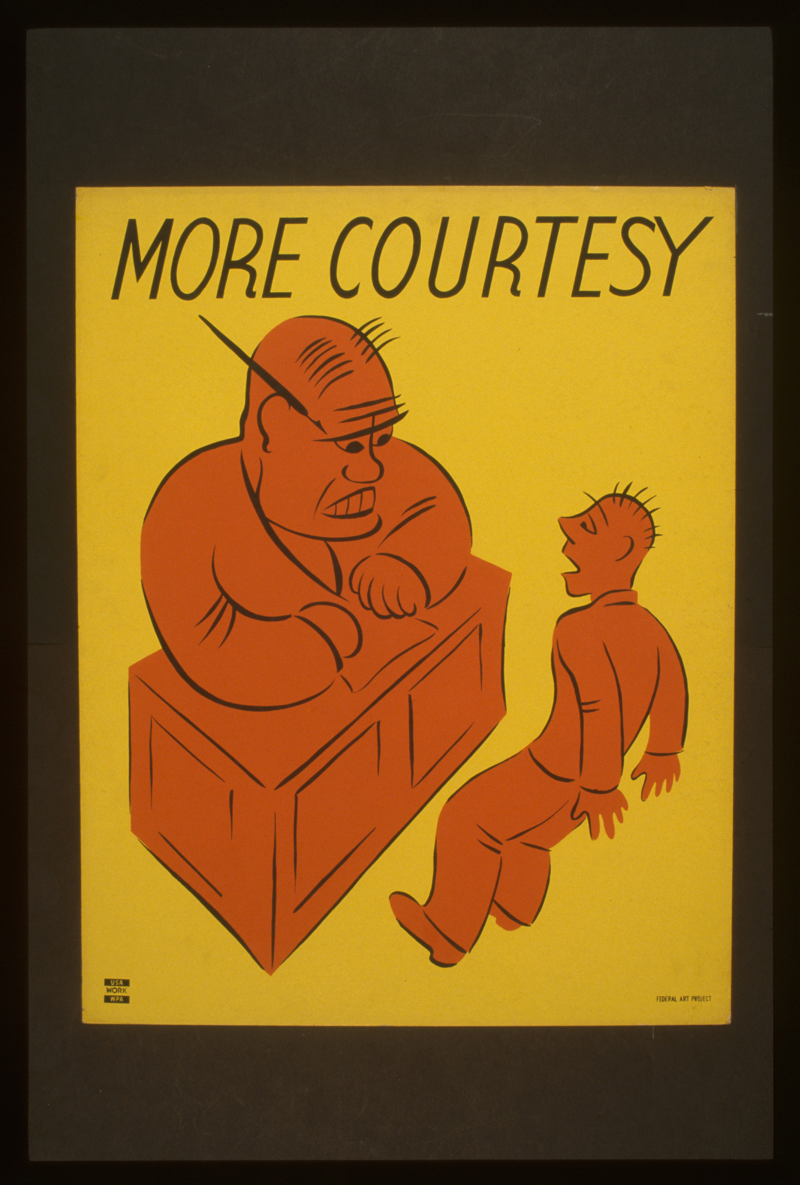 Title: More courtesy Abstract: Poster promoting better interpersonal communications in the workplace, showing an angry man seated behind a desk and a cowering subordinate. Physical description: 1 print on board (poster) : silkscreen, color. Notes: Work Projects Administration Poster Collection (Library of Congress).